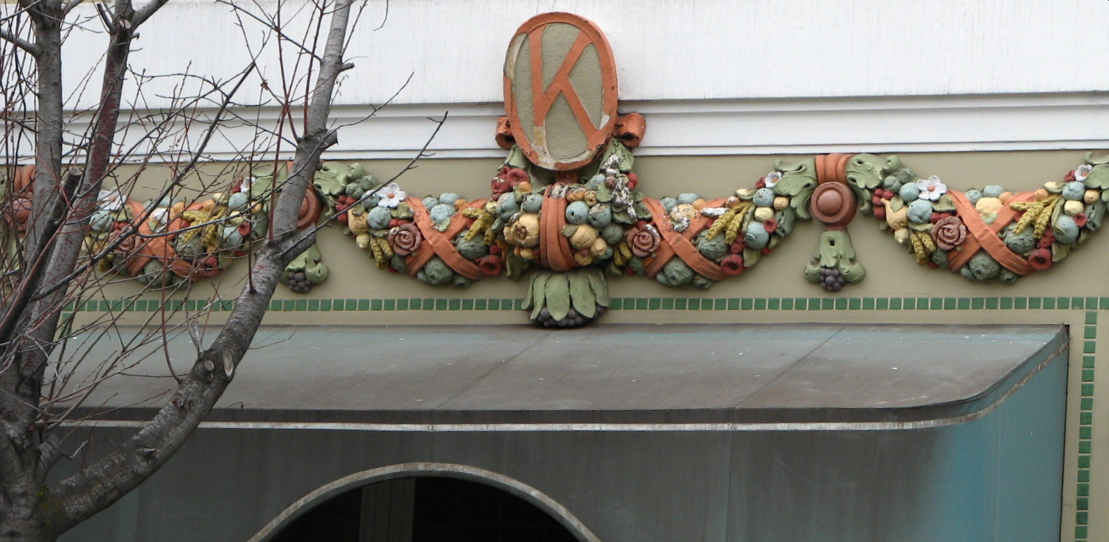 The historic O'Kane Building (built 1916), located at 115 Northwest Oregon Avenue in Bend, Oregon, United States, is listed on the US National Register of Historic Places (NRHP). Object location44° 03′ 33″ N, 121° 18′ 41″ W